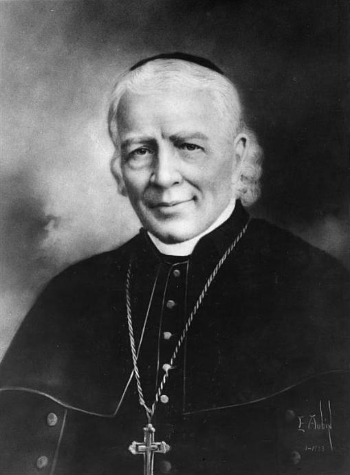 A photograph of Ignace Bourget, Bishop of Montreal. Taken prior to 1882, most likely around 1840 judging by Bourget's apparent age and clothes.